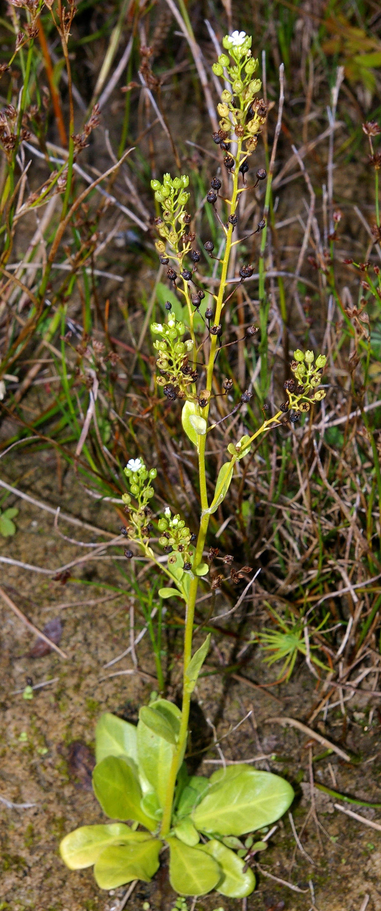 The salt-tolerating plant Samolus valerandi ssp. valerandi in a late stage.